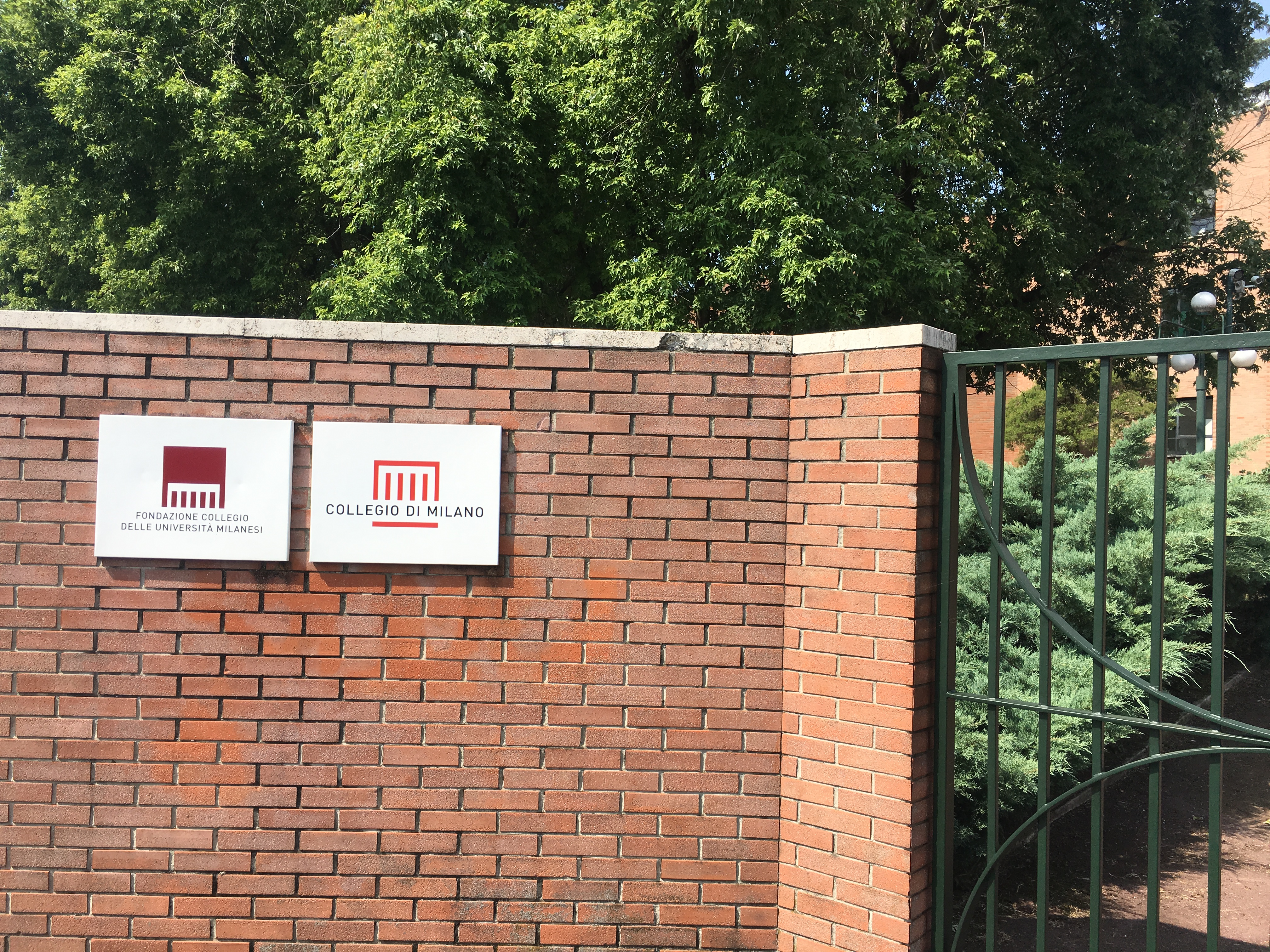 Details of the left-hand side of the entrance to the Collegio di Milano